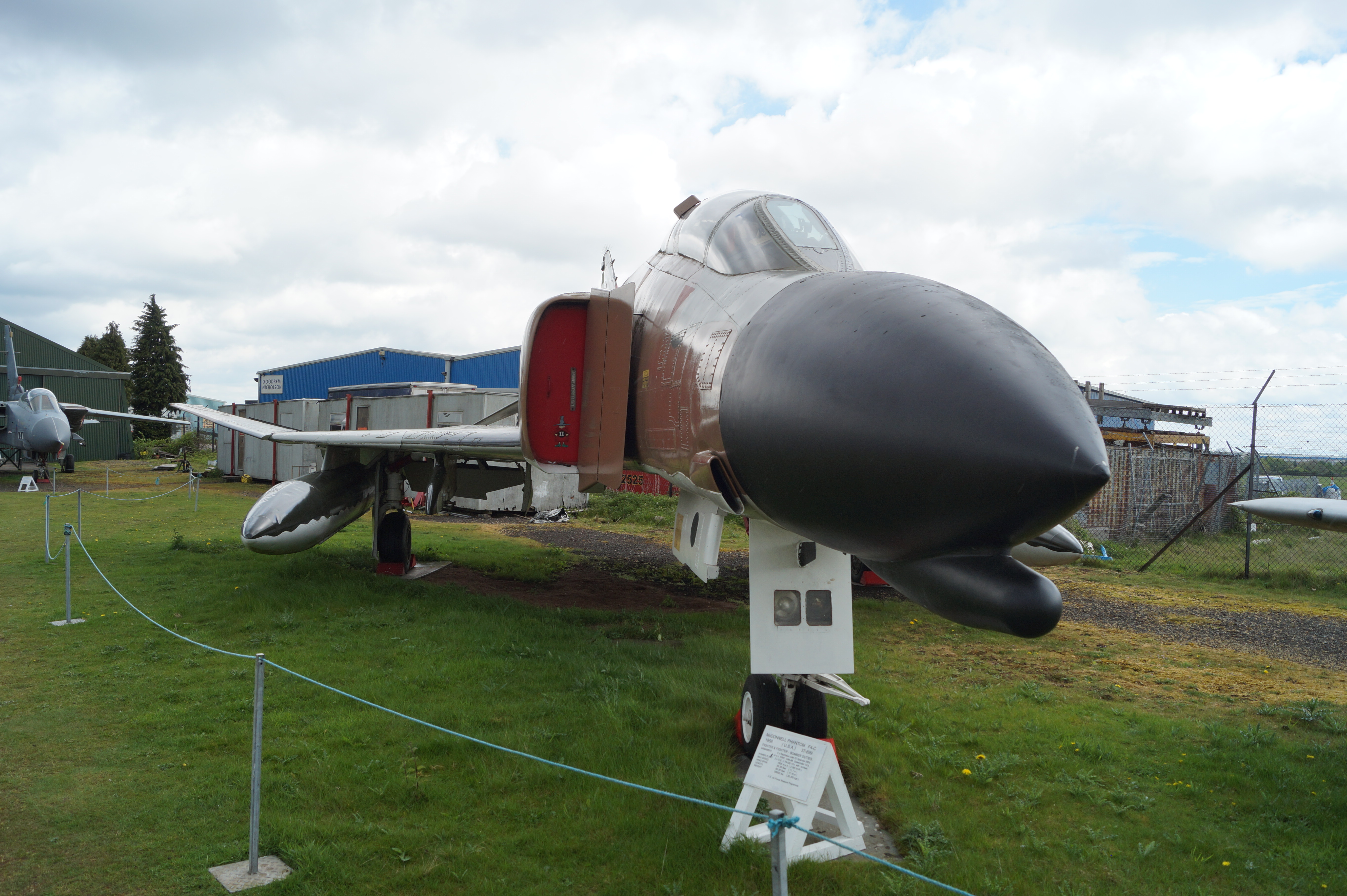 McDonnell F-4C Phantom II 37-699 based at Midland Air Museum at Coventry Airport